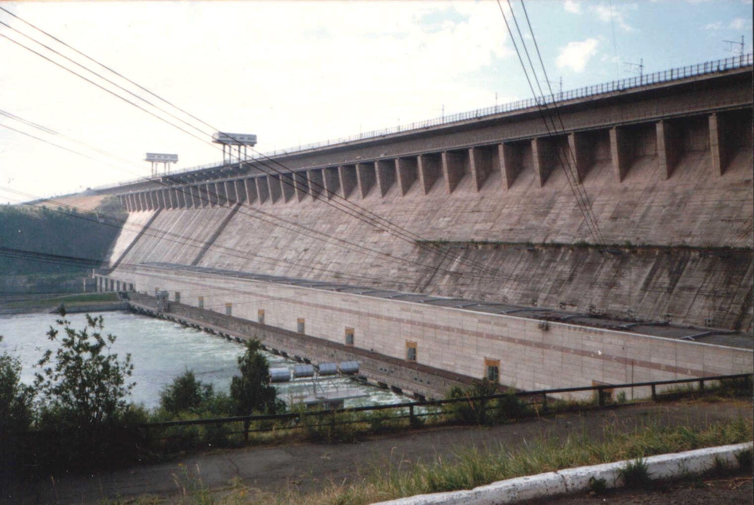 The Bratsk Dam in Siberia.